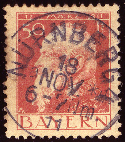 Stamp of Bavaria, 50 pfennig issue 1911, red-brown, cancelled NÜRNBERG 4 on 18-11-1911. Mi83.